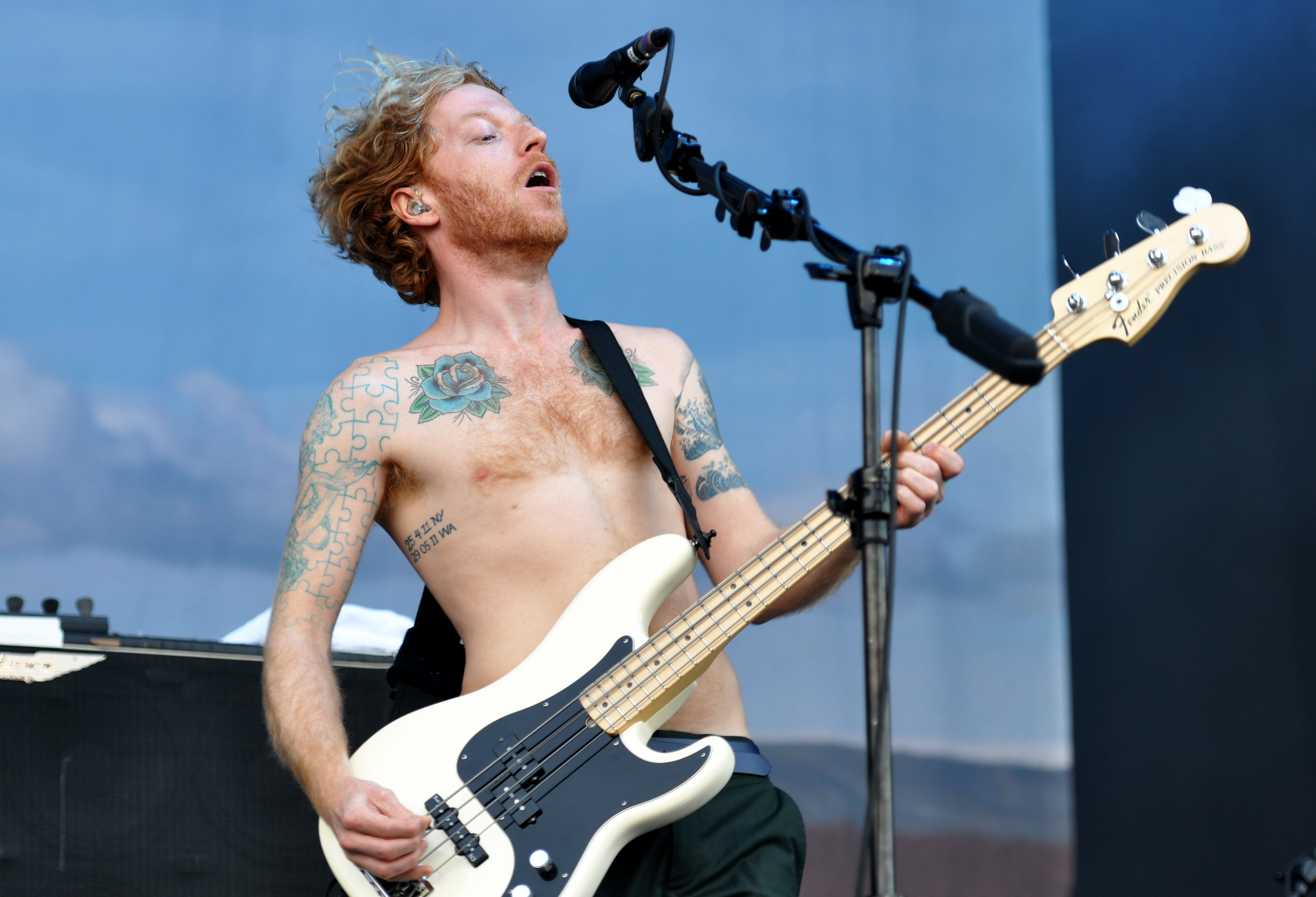 James Johnston of Biffy Clyro at Rock am Ring 2013